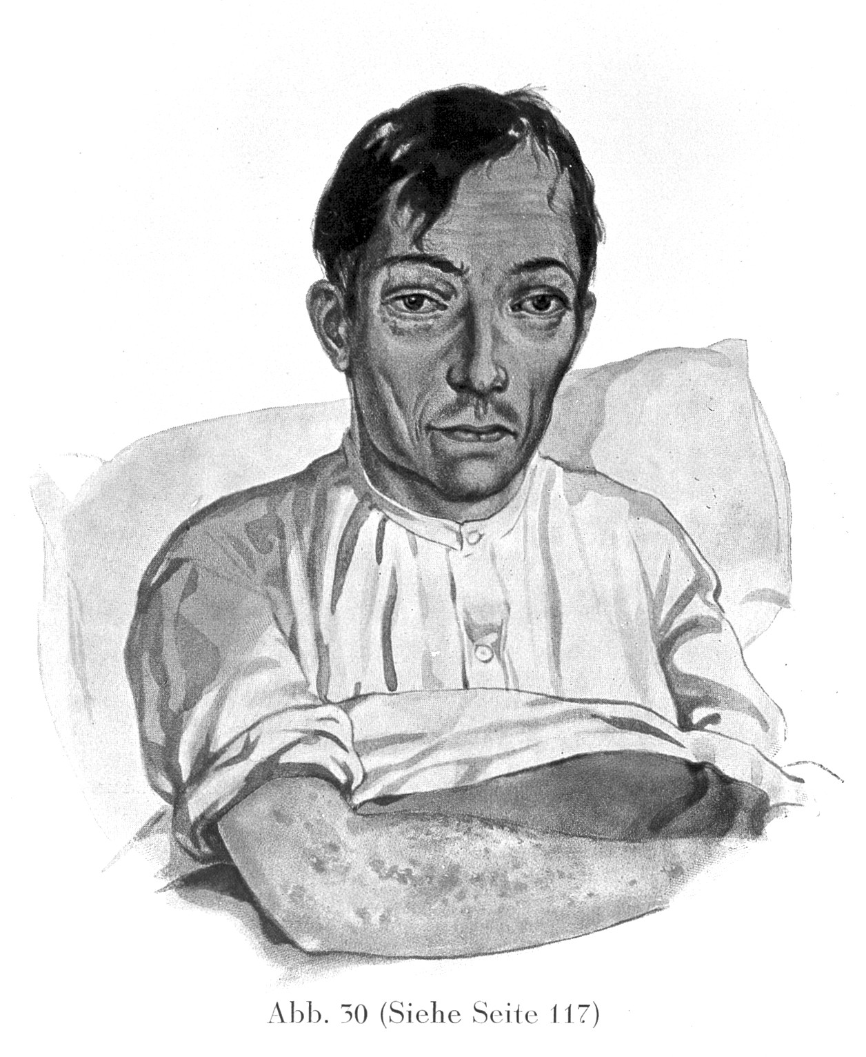 Representation of patient with scurvy General Collections Keywords: vitamin deficiency; Karl Heinrich Baumgaertner